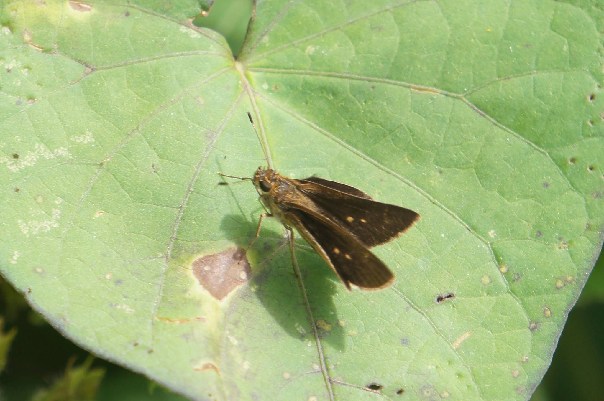 Callimormus saturnus. Species of insect.